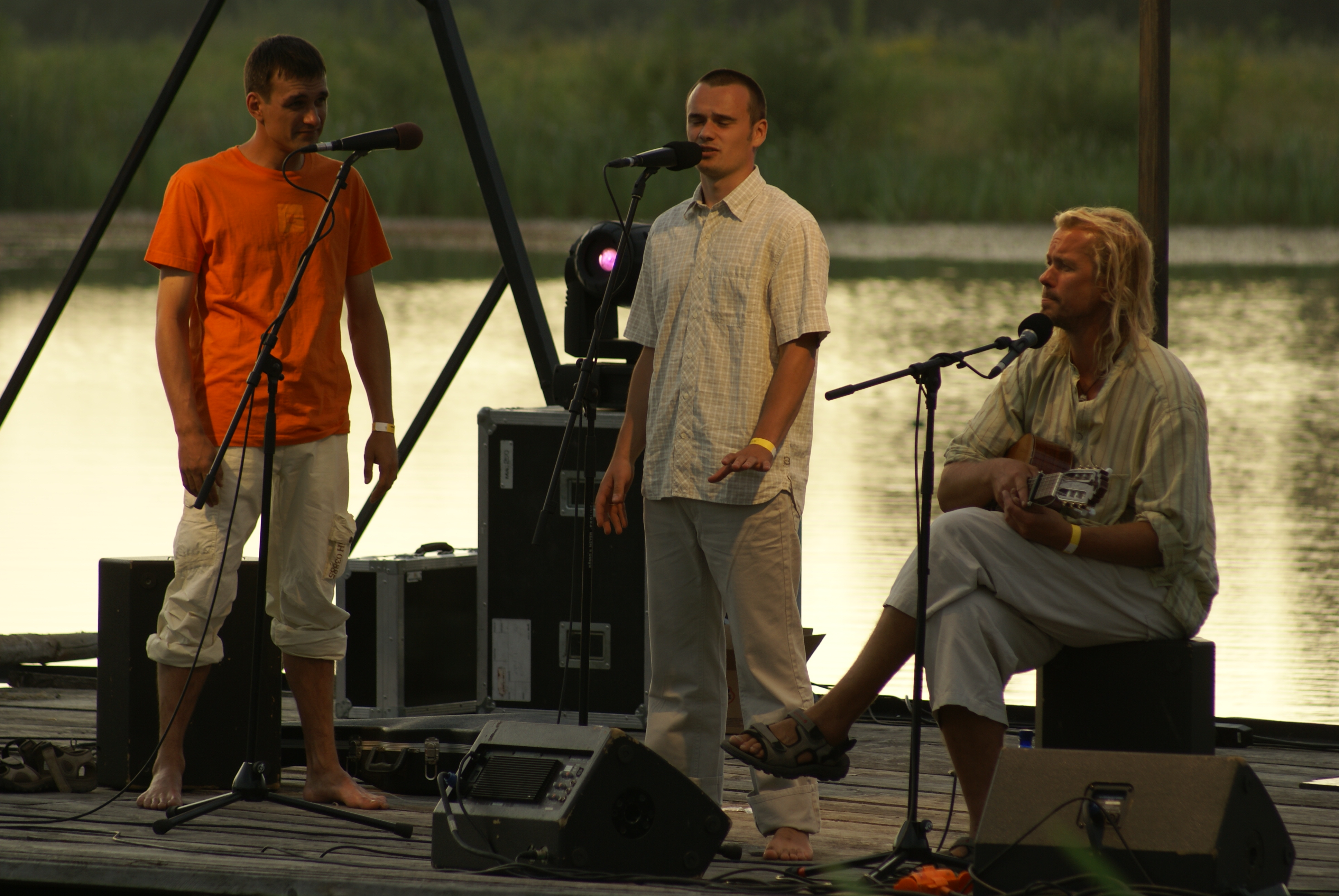 Estonian photographers Jaak Põder and Sven Začek with playwright and actor Jaan Tätte at Leigo Lake Music in 2007.